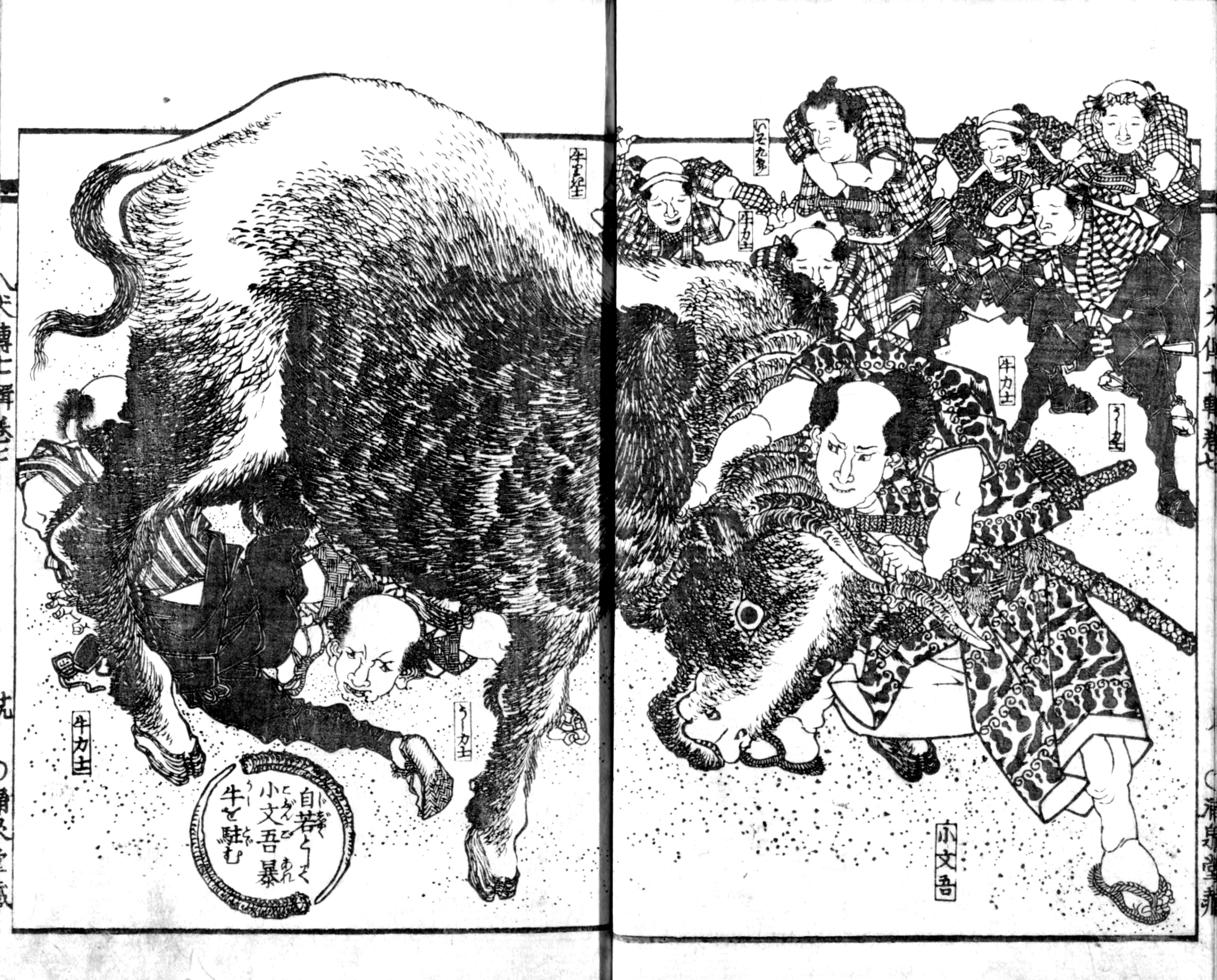 Illustration of "Kobungo (小文吾) is stopping a rampaging cattle" in Japanese book "Nansō Satomi Hakkenden". (Gray-scaled)